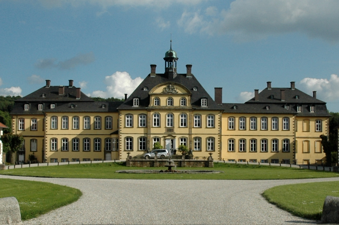 Castle of Söder in Holle, Lower Saxony, north-western aspect